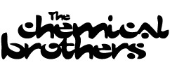 The Chemical Brothers logo